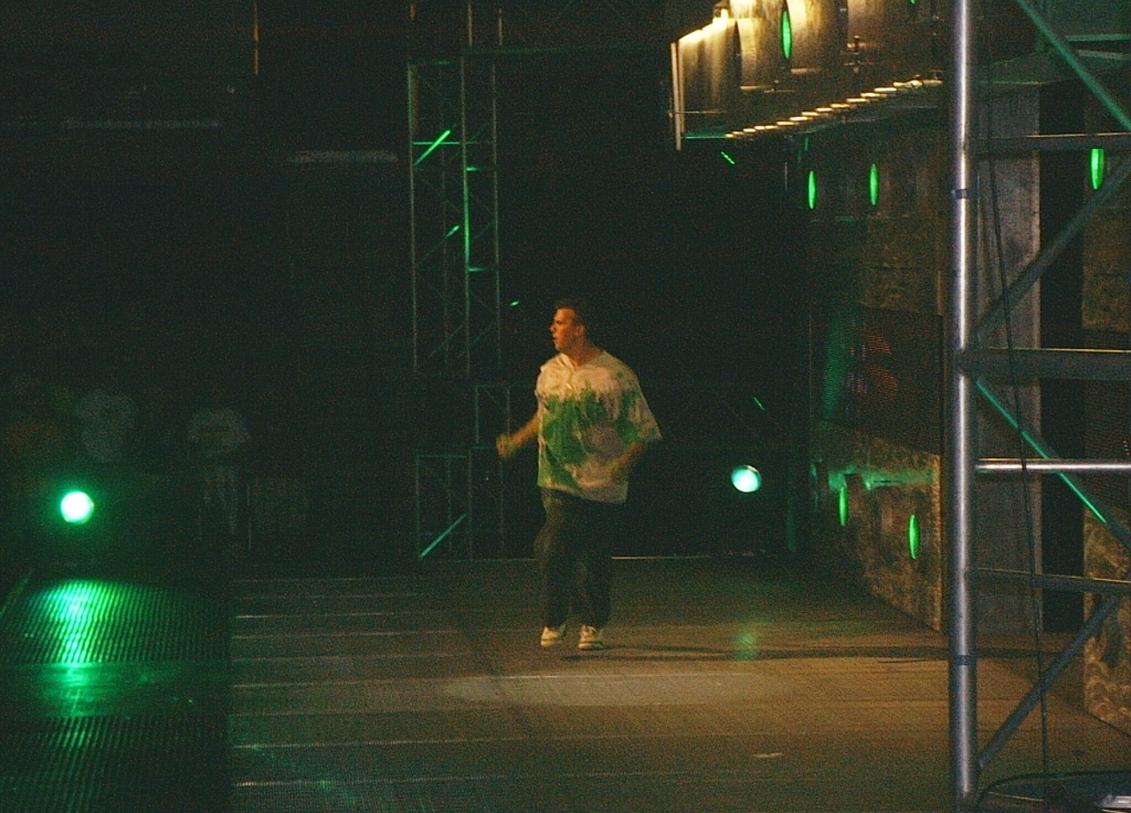 An image of Shane McMahon